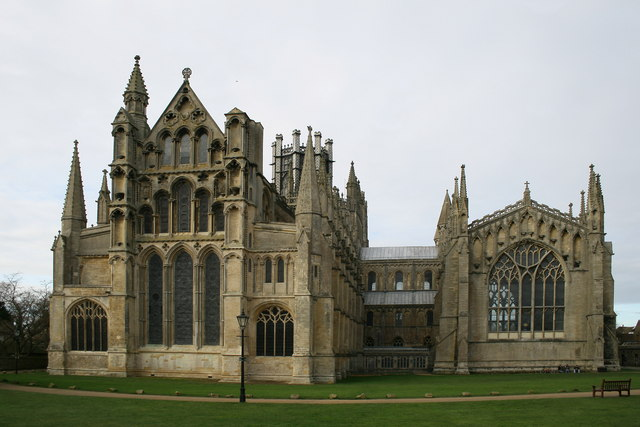 A view of Ely Cathedral from the East.